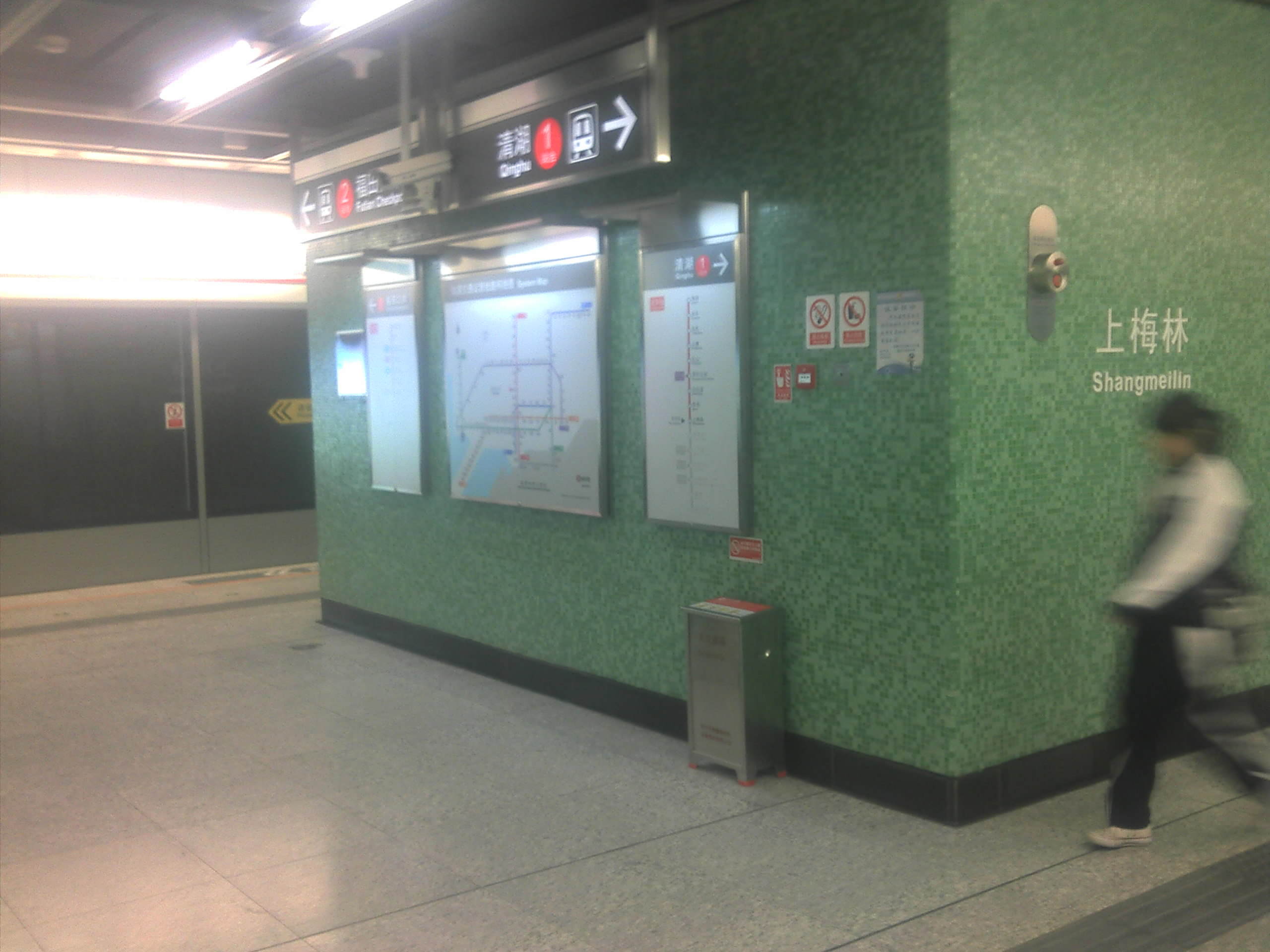 This photo was taken as Dec 10, 2011 at Shangmeilin Station.